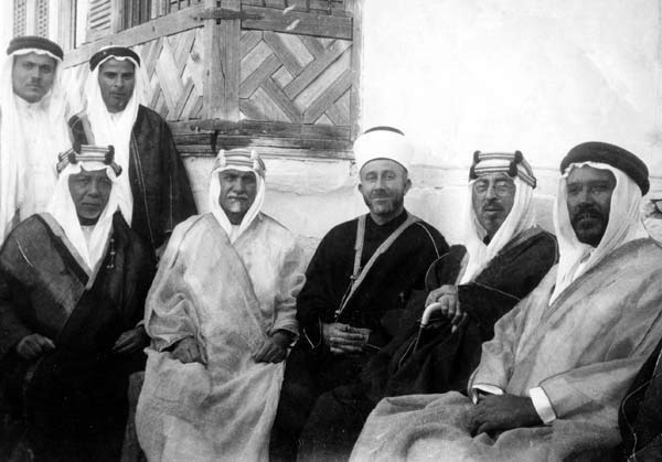 Hashim al-Atassi, Hajj Amin al-Husayni, and Shakib Arslan in a visit to Saudi Arabia